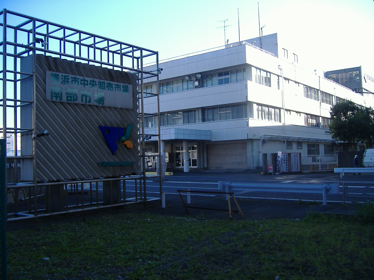 Yokohama Nanbu Market